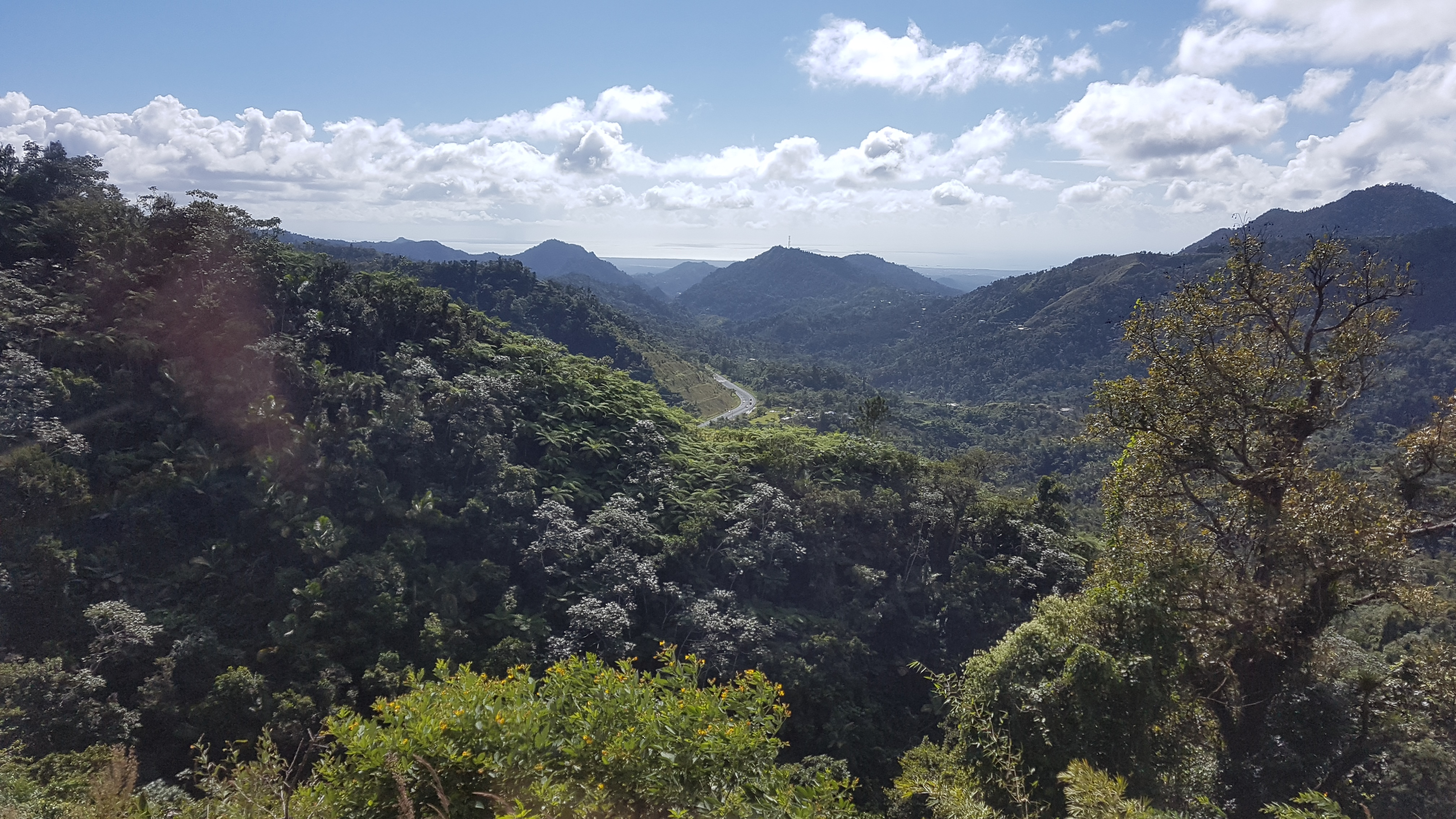 Carr. PR-10, cruzando Bo. Guaraguao, Ponce, PR, vista desde la PR-143, km 2.0, Bo. San Patricio, Ponce, Puerto Rico, mirando al sur (20191222 103205)